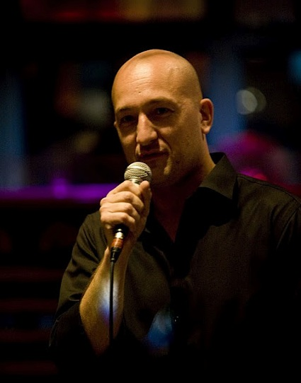 Albrecht Behmel, Berlin, FilmforumPRO